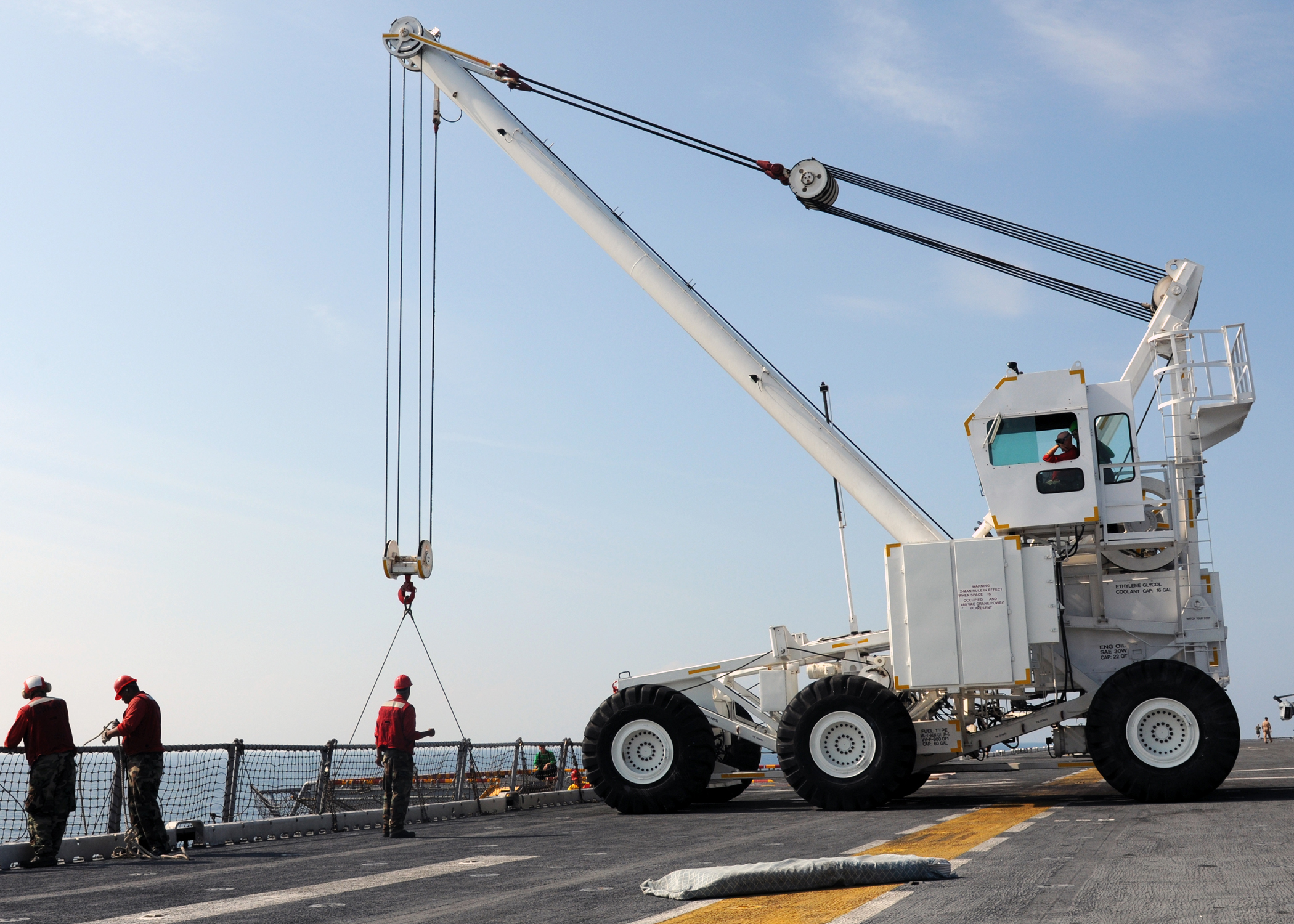 ATLANTIC OCEAN (July 12, 2010) Crash and Salvage division crew members aboard the amphibious assault ship USS Kearsarge (LHD 3) direct an aircraft crash crane while storing a loading ramp. The Kearsarge Amphibious Ready Group (ARG) is participating in a Composite Unit Training Exercise (COMPTUEX) off the East Coast of the United States. (U.S. Navy photo by Mass Communication Specialist 3rd Class Joshua Mann/Released)